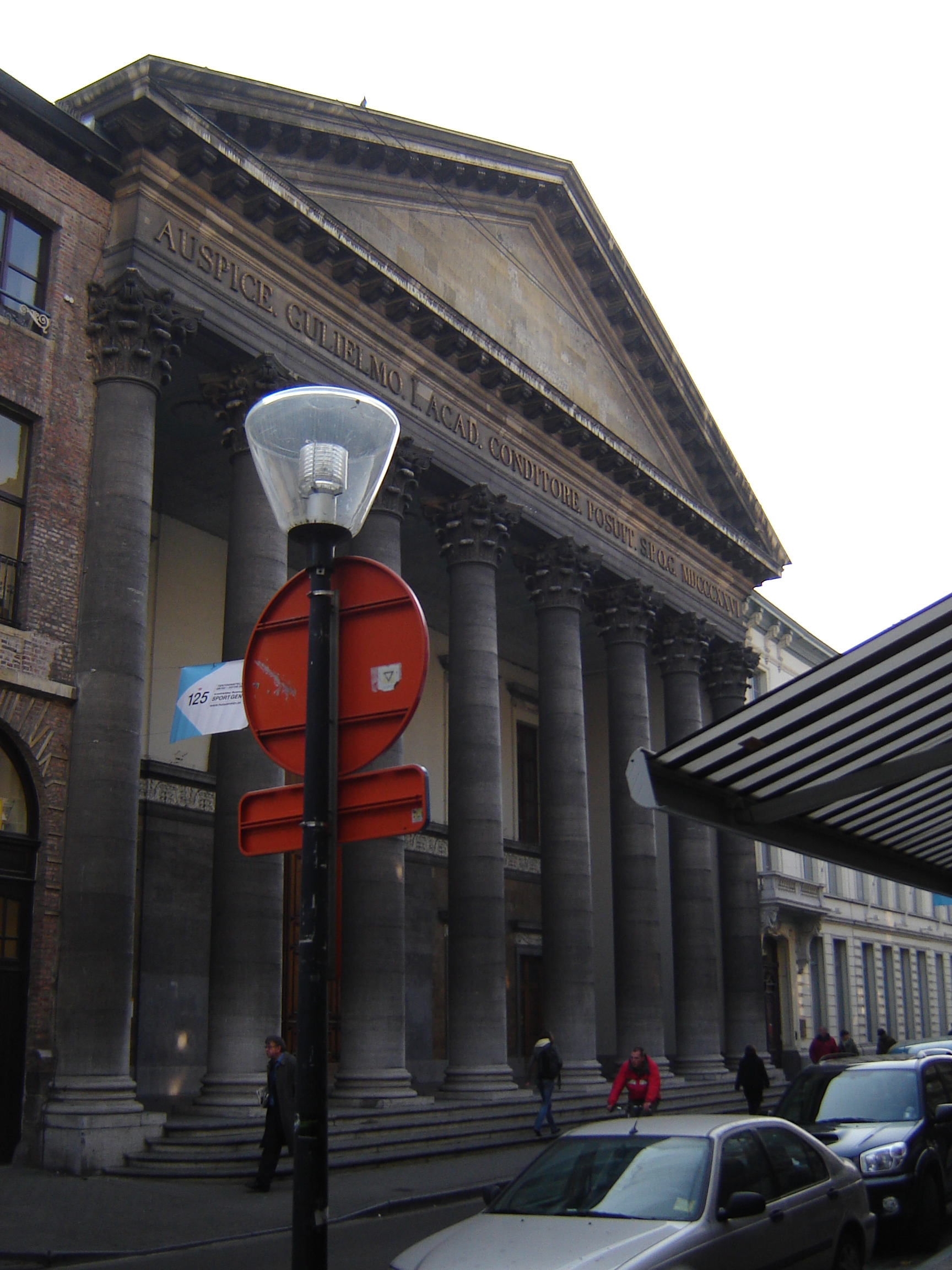 "Aula" of the Ghent University. Gent, East Flanders, Belgium